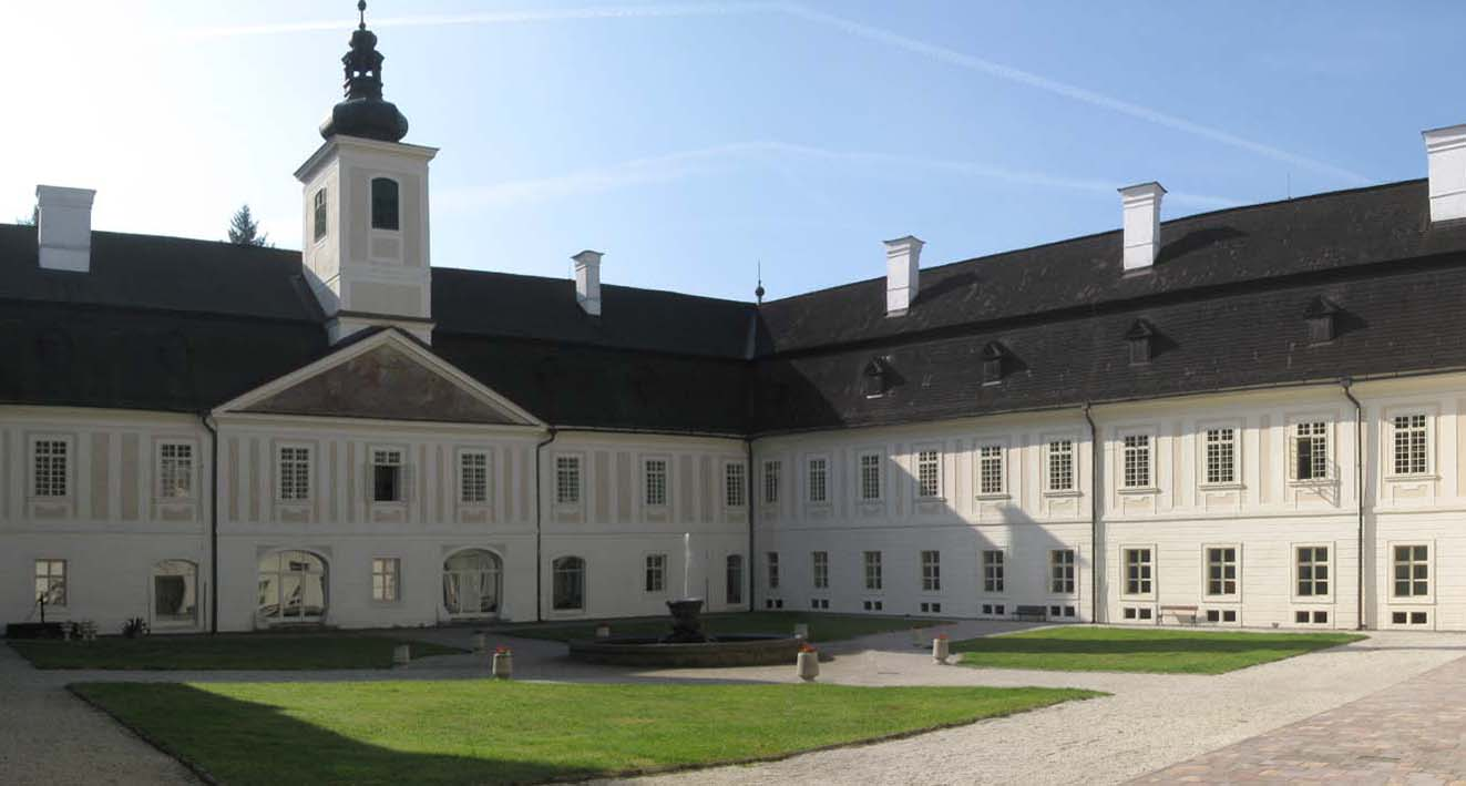 This medium shows the protected monument with the number 602-1209/1 in the Slovak Republic.